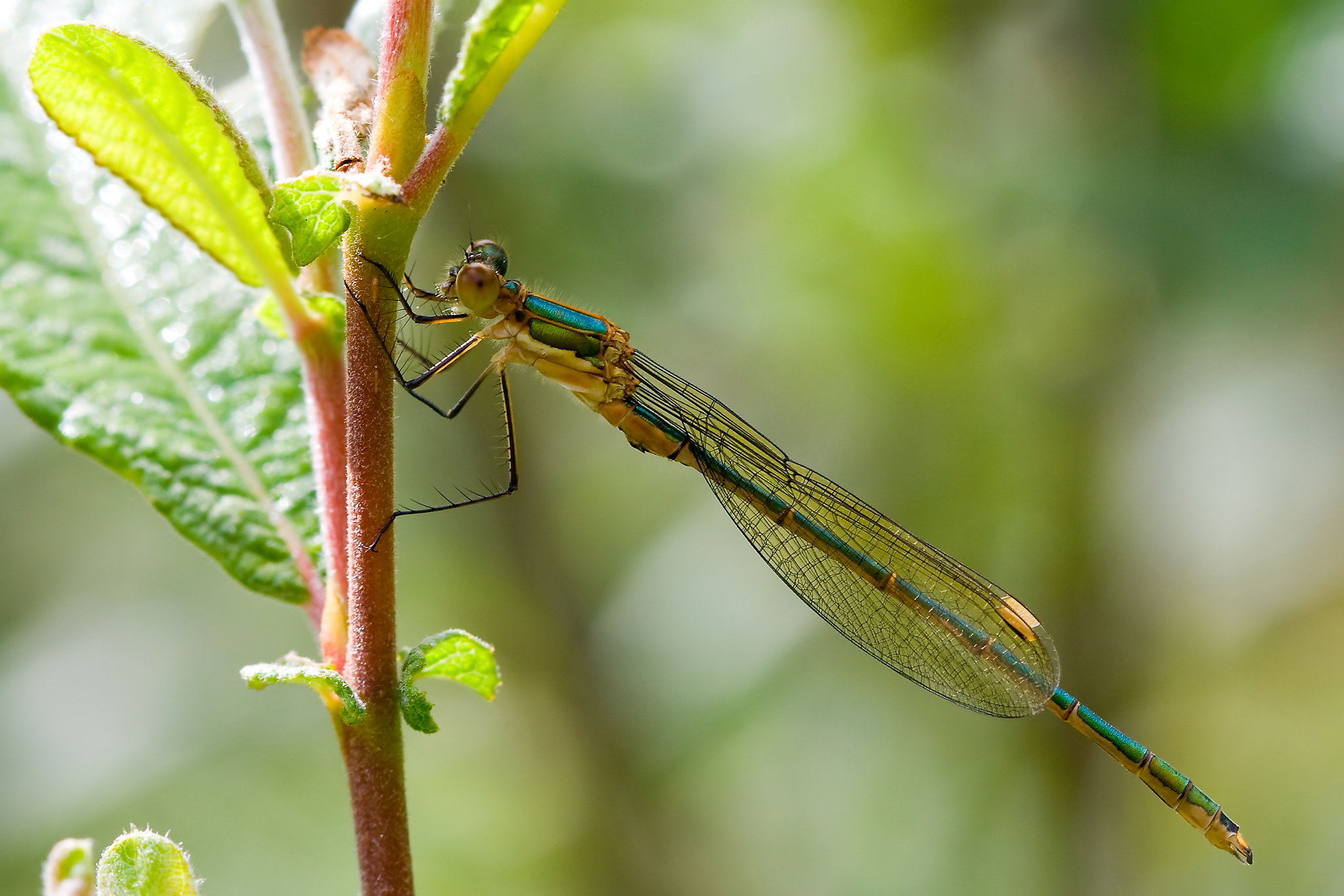 Teneral male Emerald Damselfly (Lestes sponsa) in the Ahlenmoor, a peatland in northern Lower Saxony, Germany. Consider the intensive orange coloring, which marks a not out-colored animal. The orange places will fade and there will be blue pruinosity later.